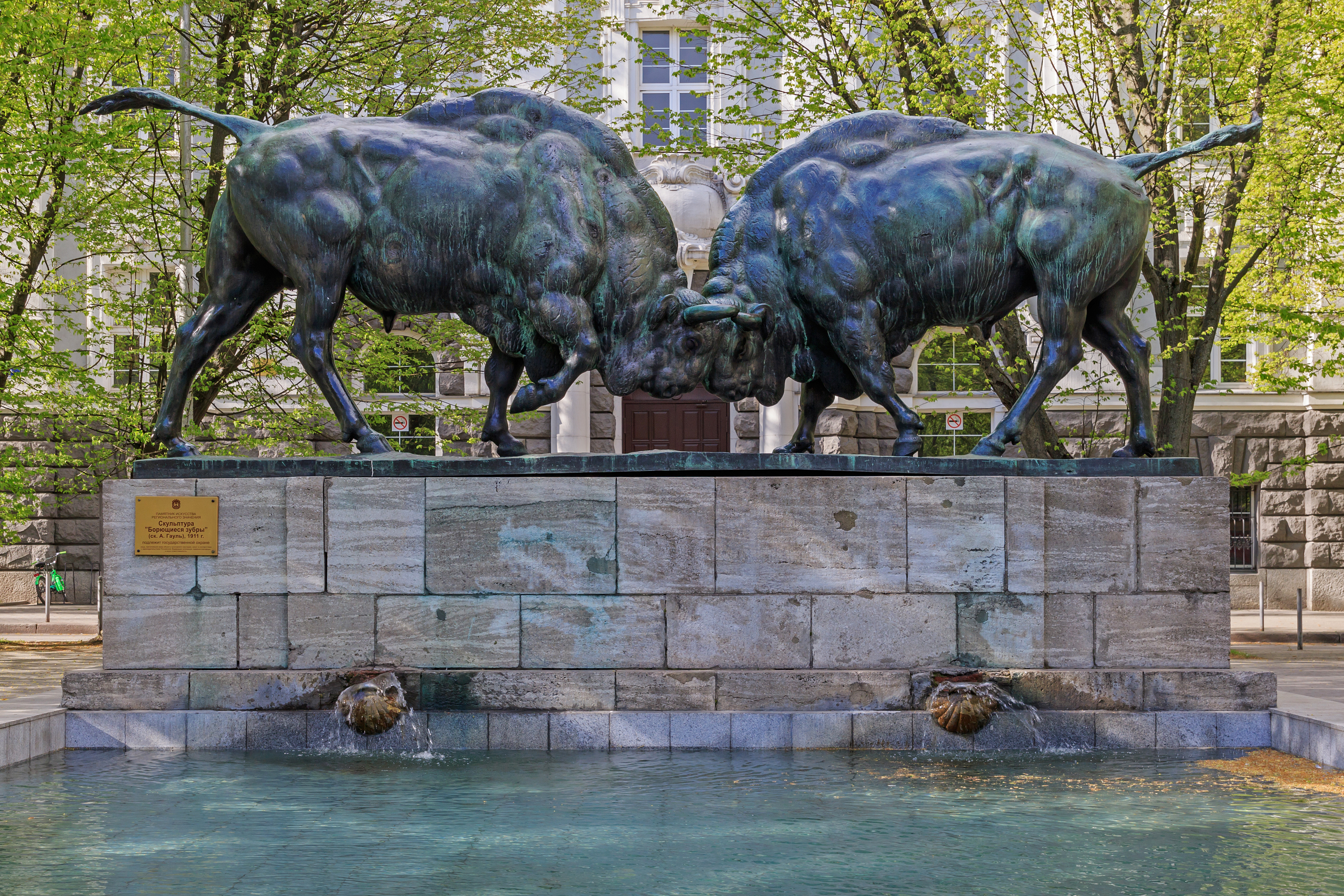 August Gaul's sculpture of «Fighting Wisents» in Kaliningrad formerly Königsberg, Kaliningrad Oblast (Russia).